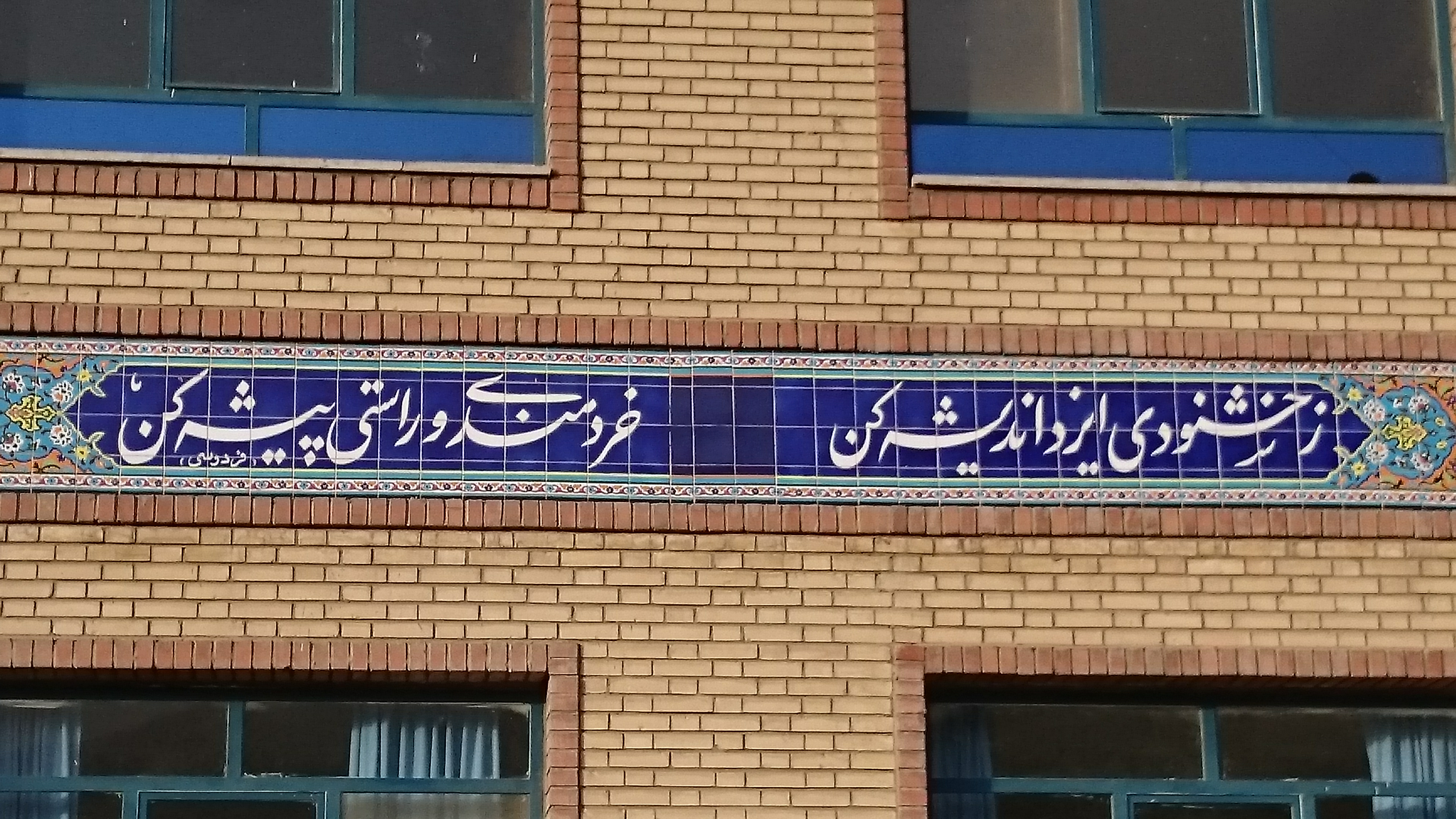 one of the ferdowsi's poem on school wall: think for your lord's Gratification - be intellectual and truthful